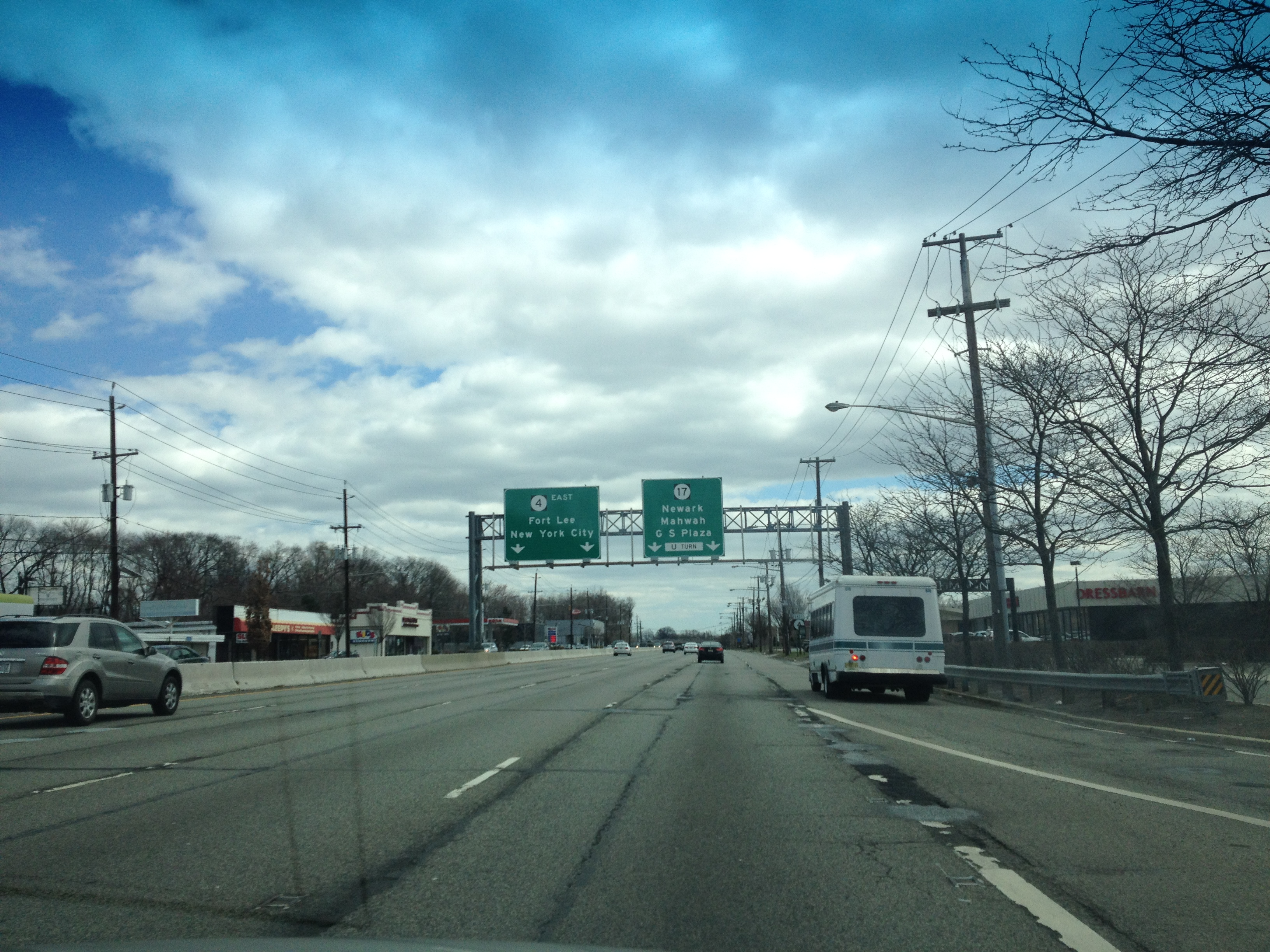 Eastbound New Jersey Route 4 approaching the interchange with New Jersey Route 17 in Paramus, New Jersey.